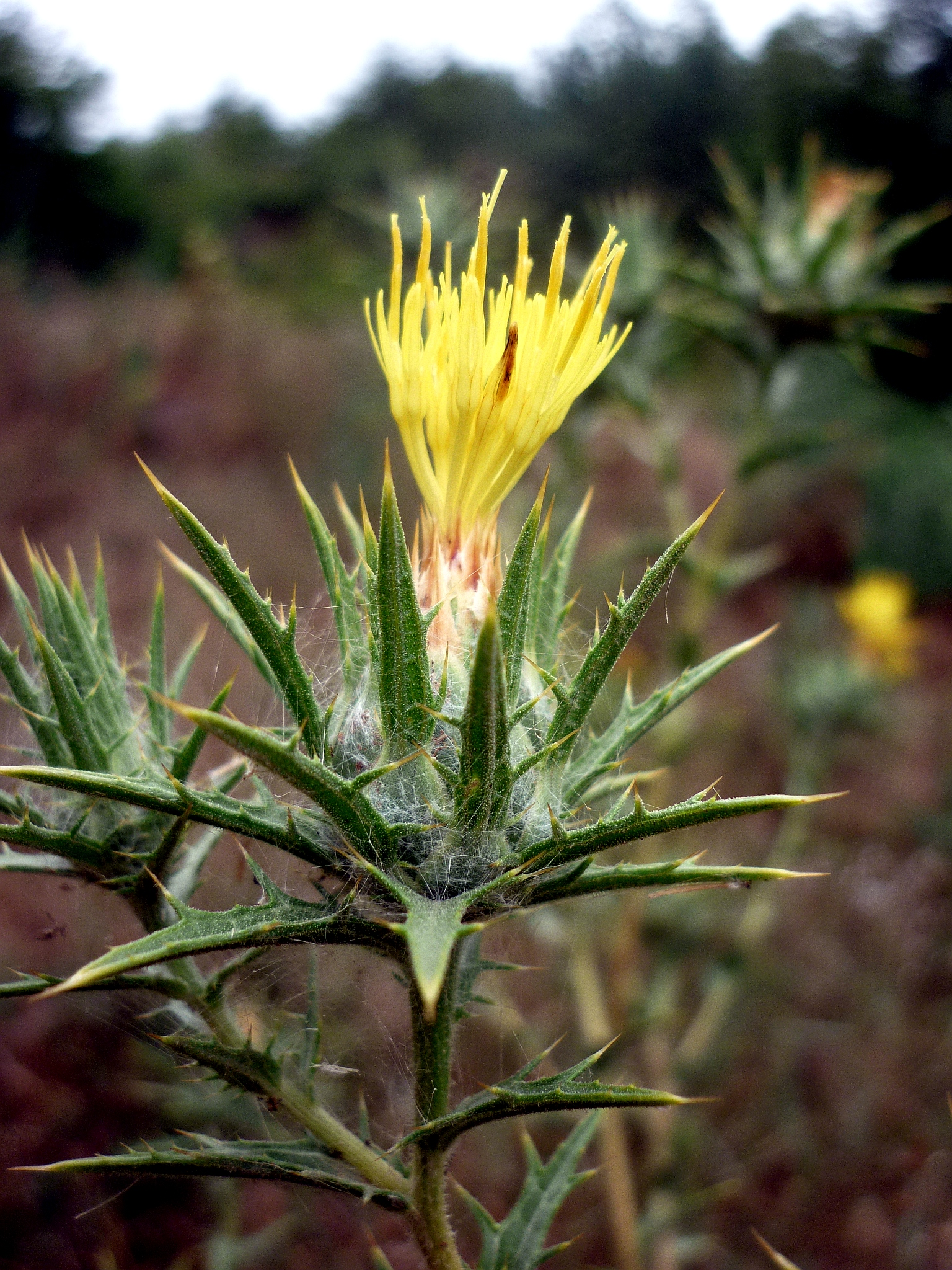 Carthamus lanatus. In Torà (Segarra- Catalunya). On 570 m. altitude